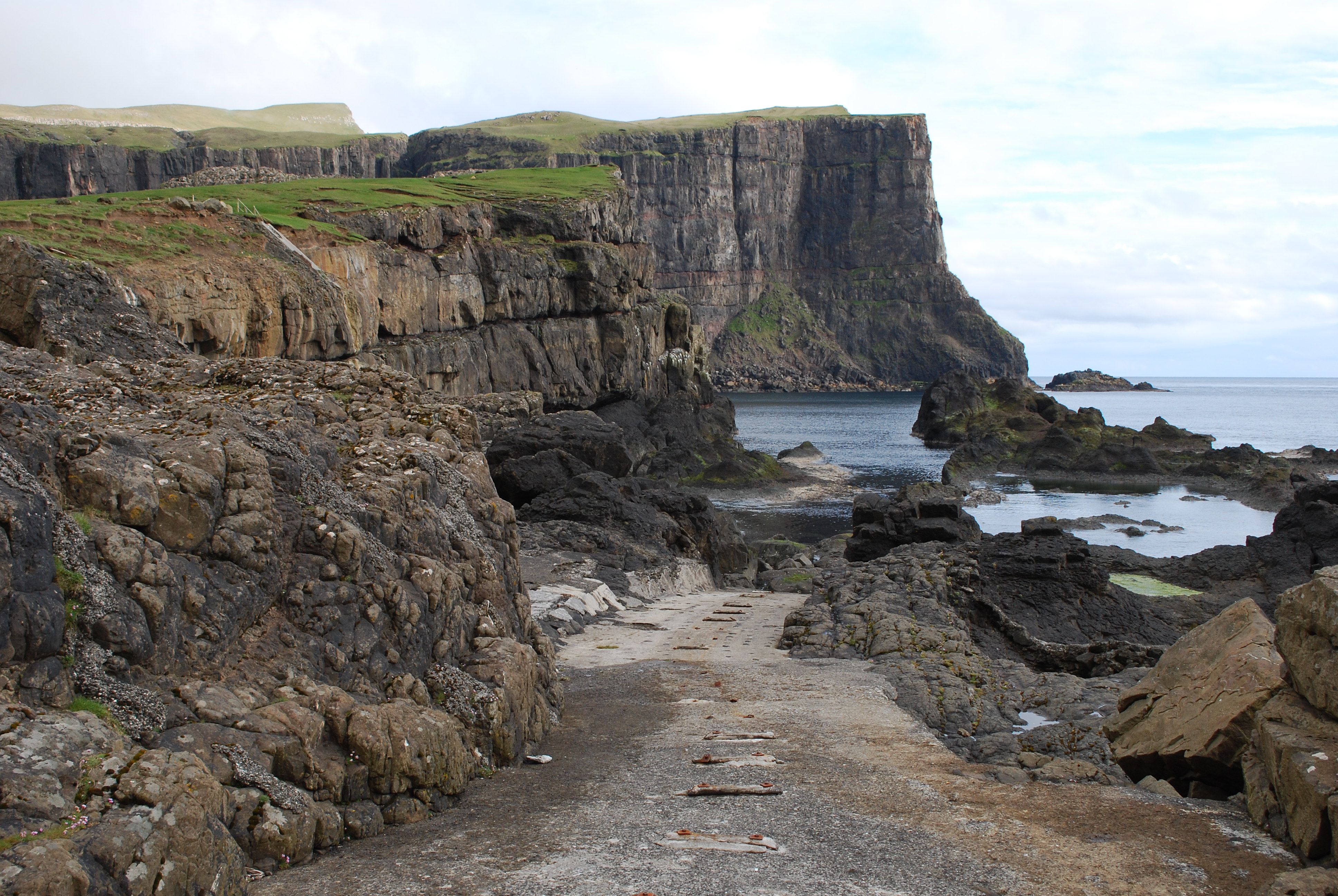 Vágseiði, old landing place, west, Vágur, Suðuroy, Faroe Islands